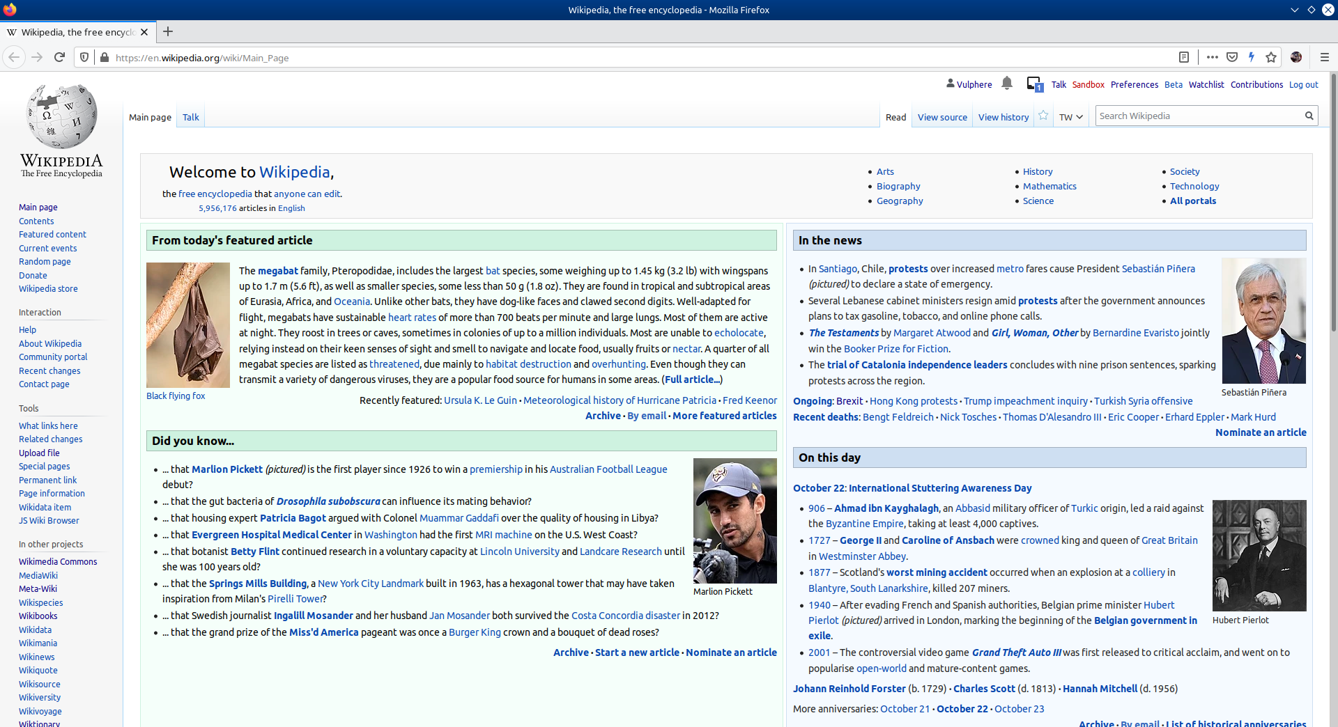 Firefox on Arch Linux, version 70